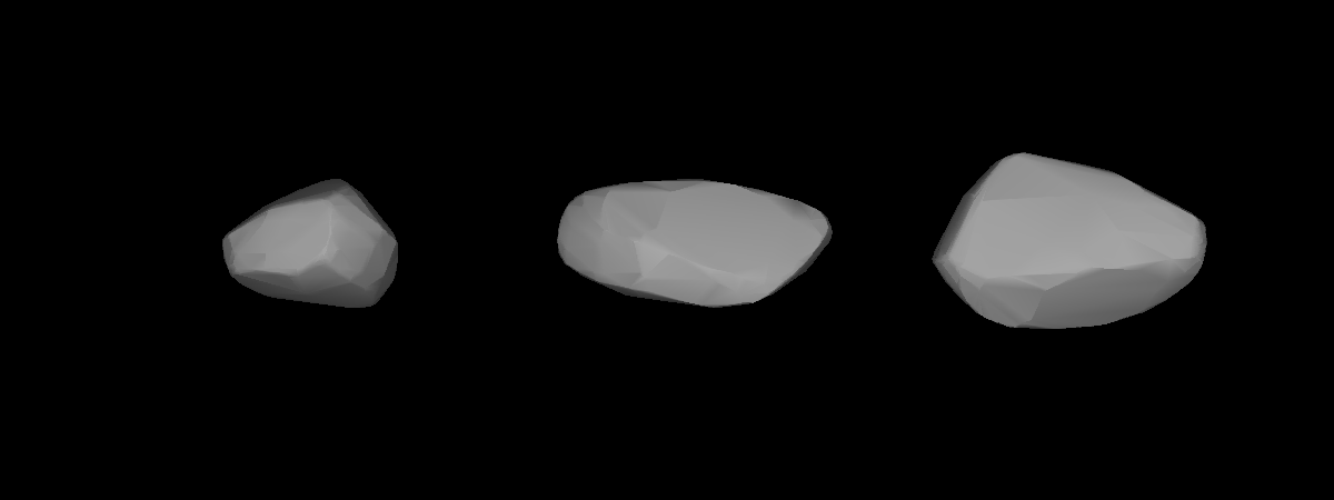 A three-dimensional model of 265 Anna that was computed using light curve inversion techniques.